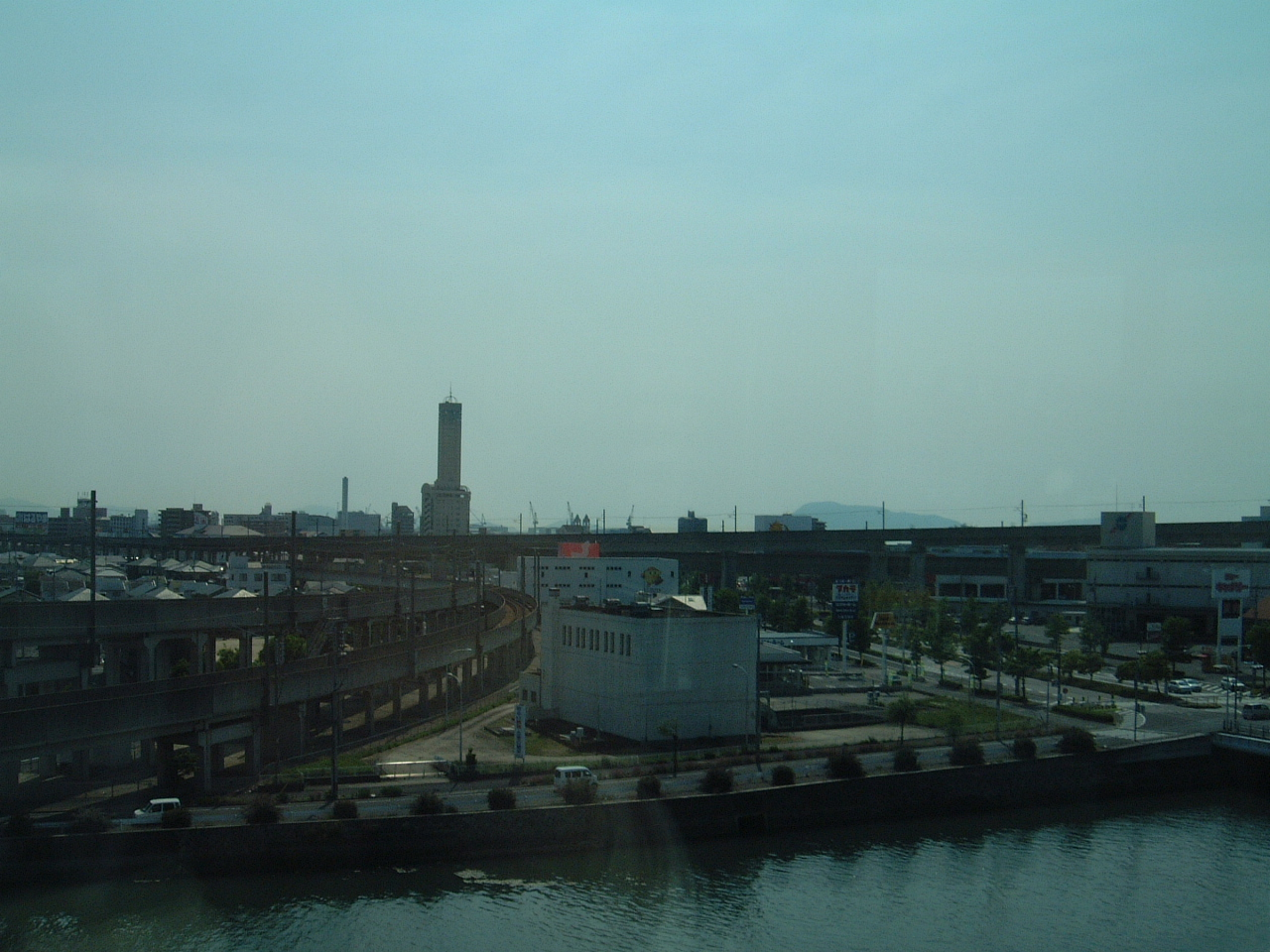 Honshi Bisan Line triangular junction viewed from the shortcut line for Sakaide